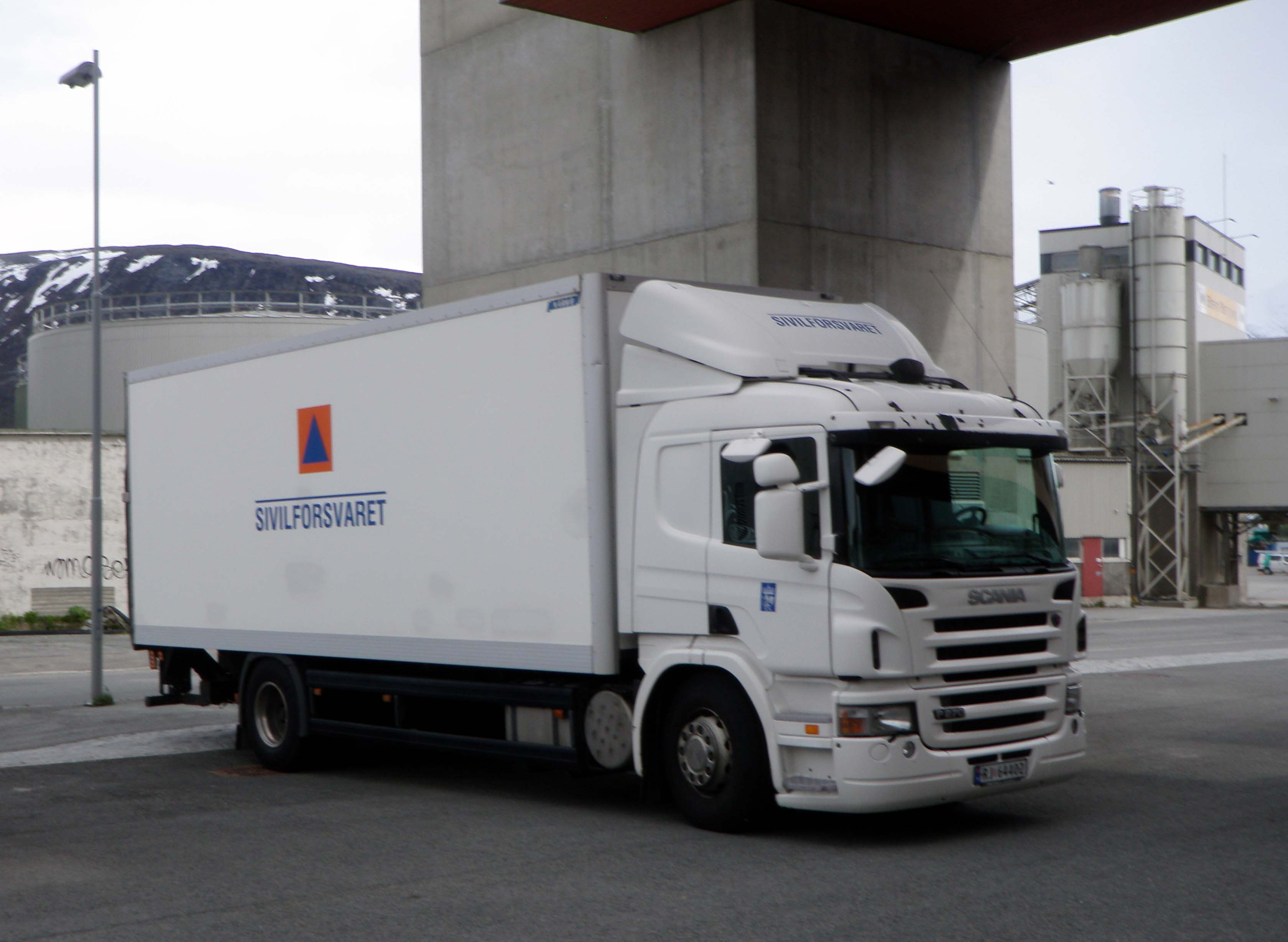 A lorry (truck) belonging to Norwegian Civil Defence, outside the fire station in Tromsø, Troms, Norway.